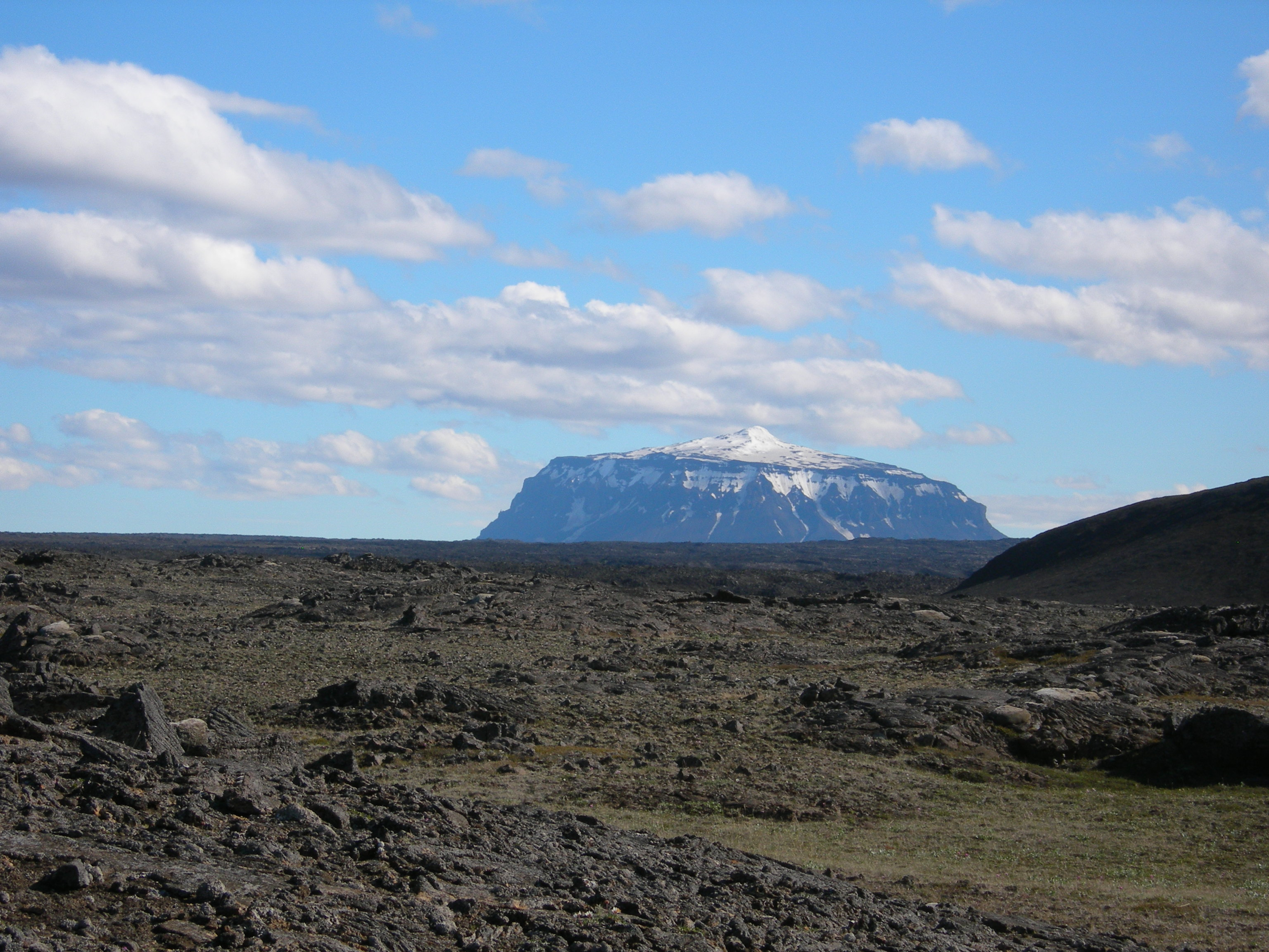 The table mountain Herðubreið, originated by subglacial volcanism, north Iceland highland.